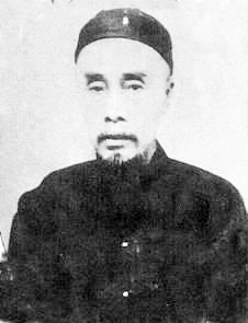 Zhao Binglin